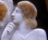 Woman on the Great Cameo of France identified as Livilla (Claudia Livia Iulia, wife of Drusus minor) or Agrippina the Elder.